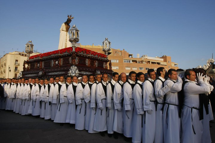 Cristo de la Humillación, 2011